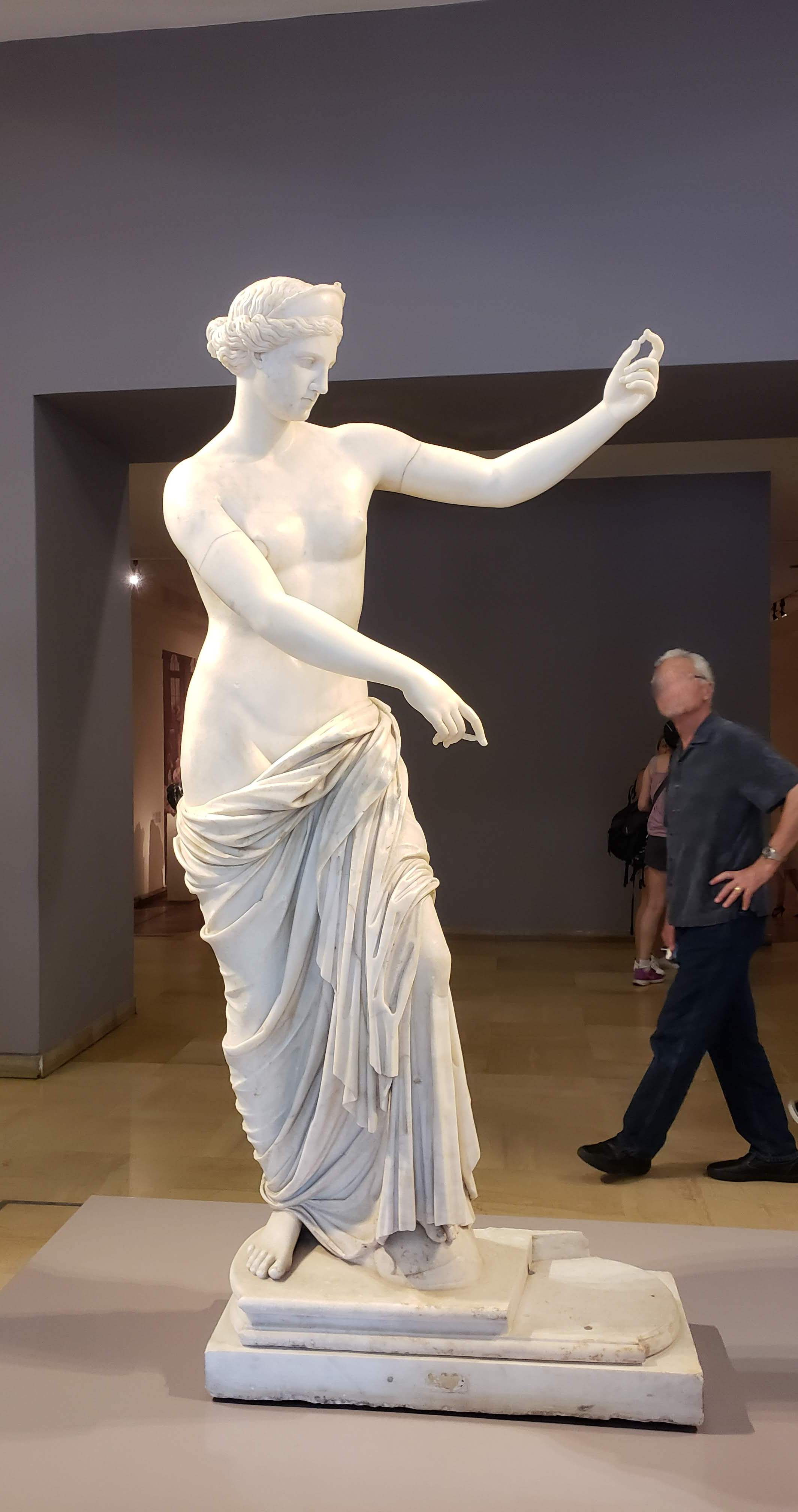 The Sculpture as exhibited in Buenos Aires in early 2019.